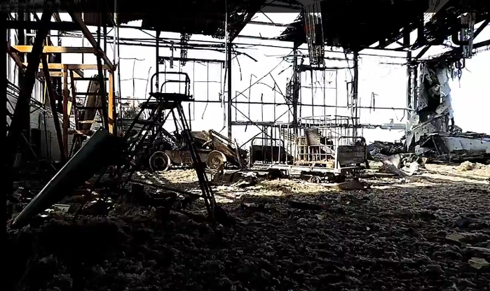 Ruins of Donetsk Sergey Prokofiev International Airport, October 16, 2014.